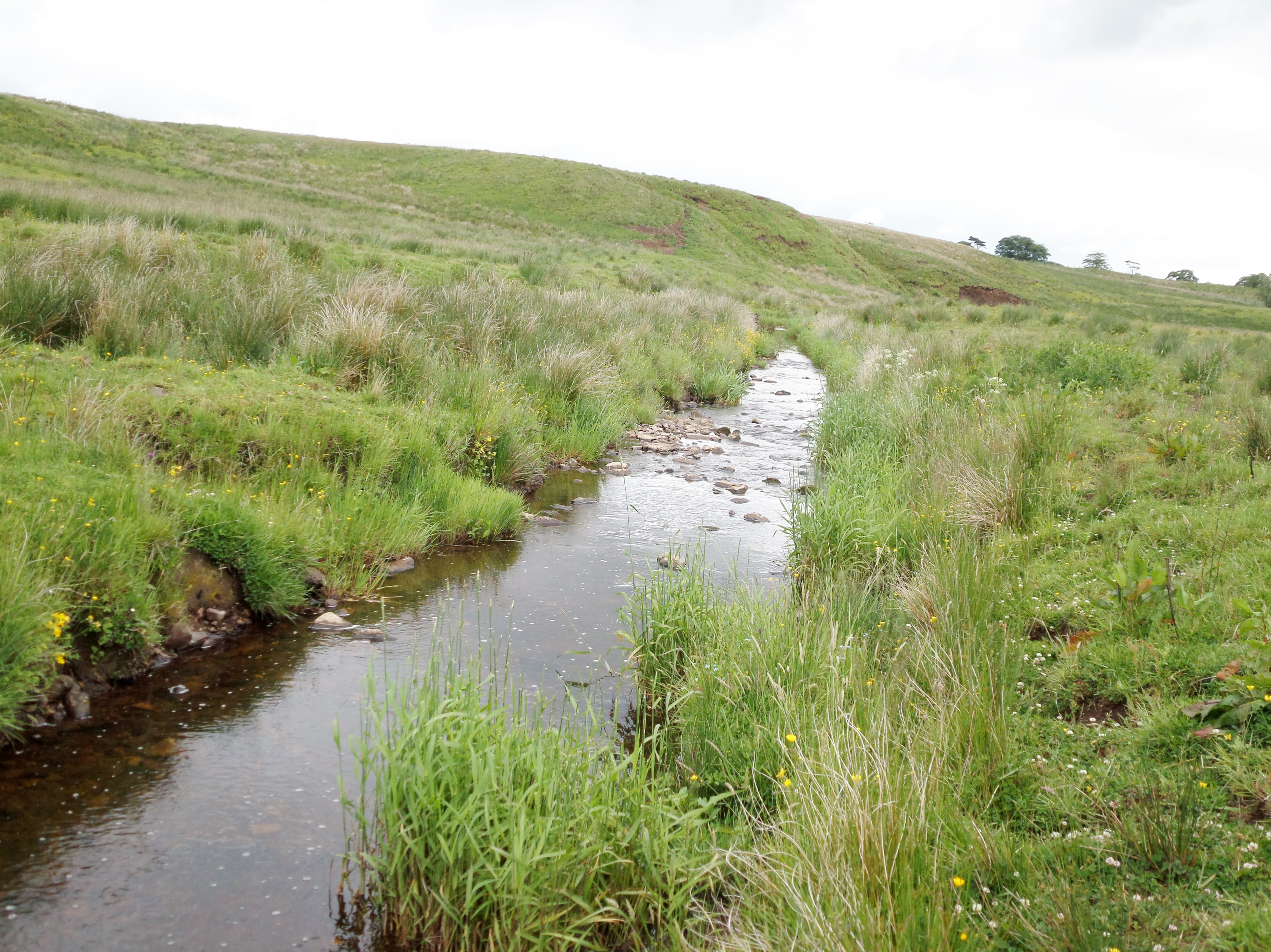 The Annick Water - downstream of Old Blacklaw Bridge, Kinsgford, Annick Water, Strathannick, East Ayrshire, Scotland.